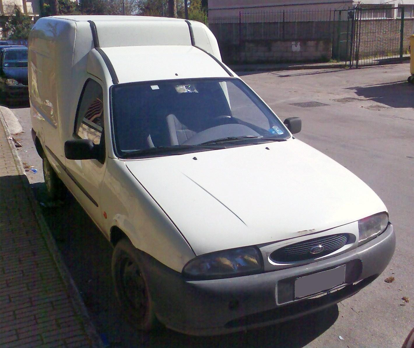 Ford Courier Euro